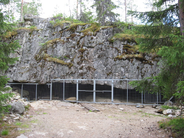 Wolf Cave in Karijoki, Finland.